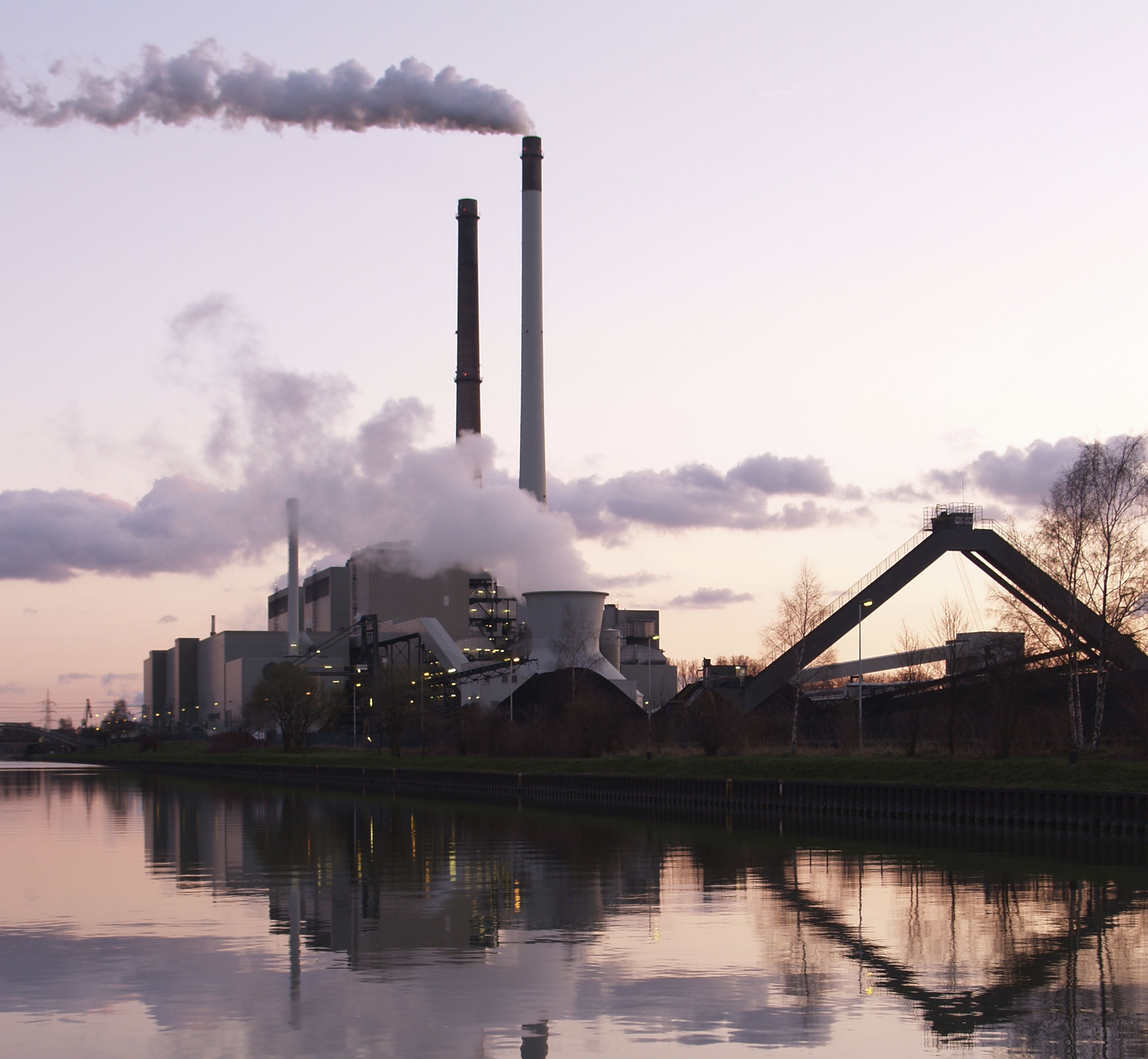 Coal power plant in Datteln (Germany) at the Dortmund-Ems-Kanal